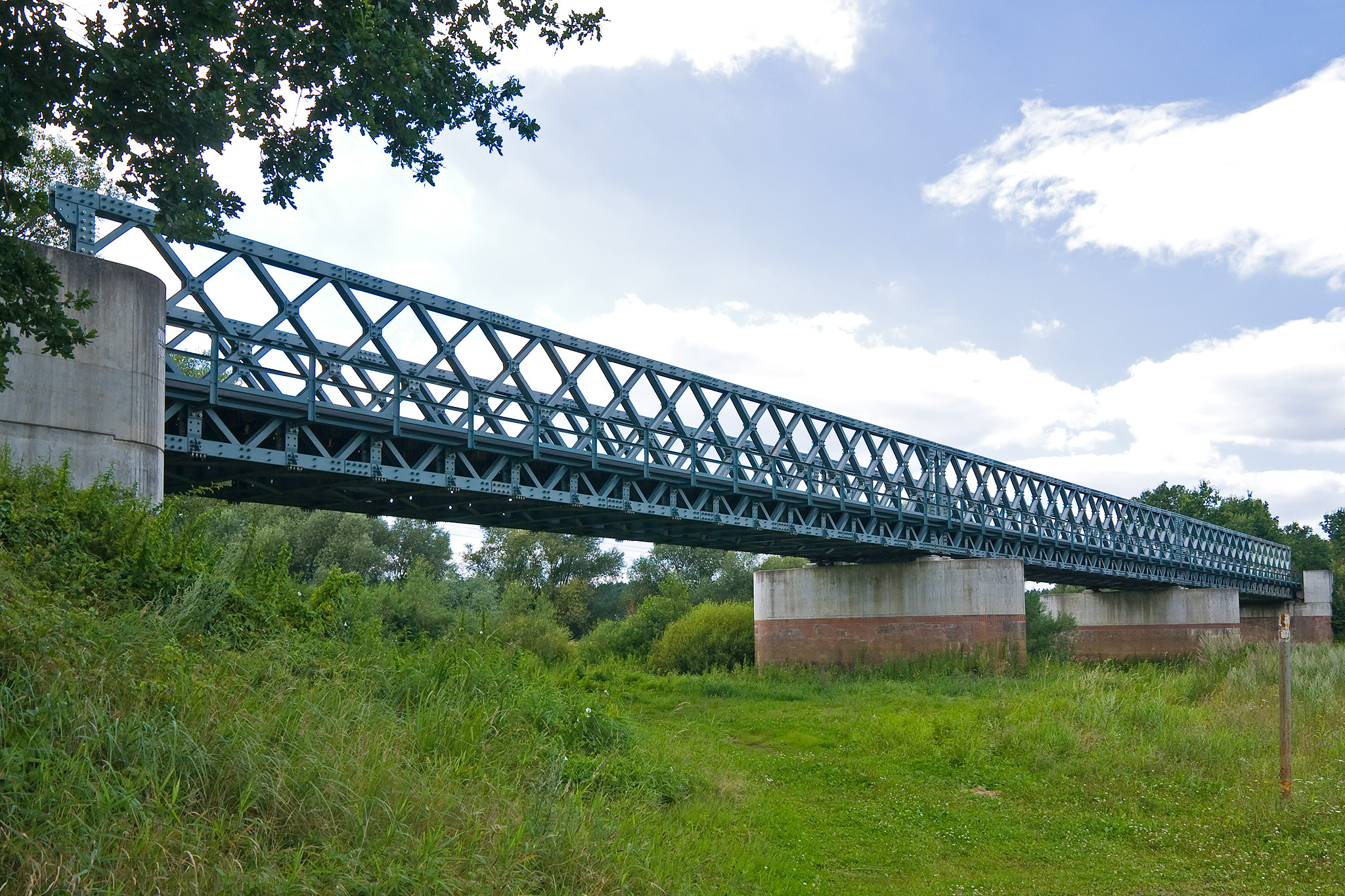 Railway bridge over the Jeetzel River near Seerau in the district Luechow-Dannenberg in Lower Saxony, Germany.